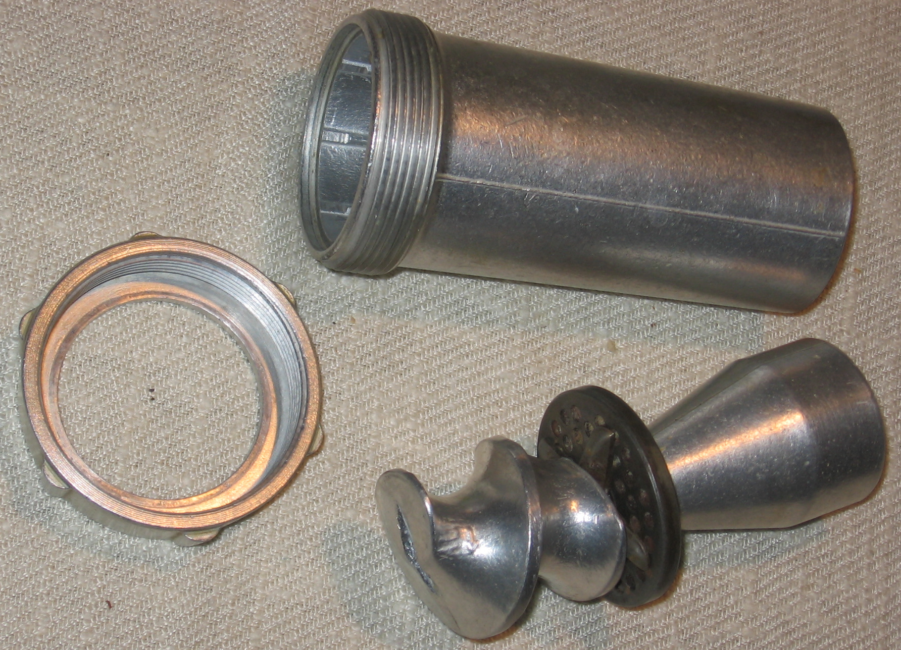 mincing-machine for home use, main parts (electrical motor and gear not shown)